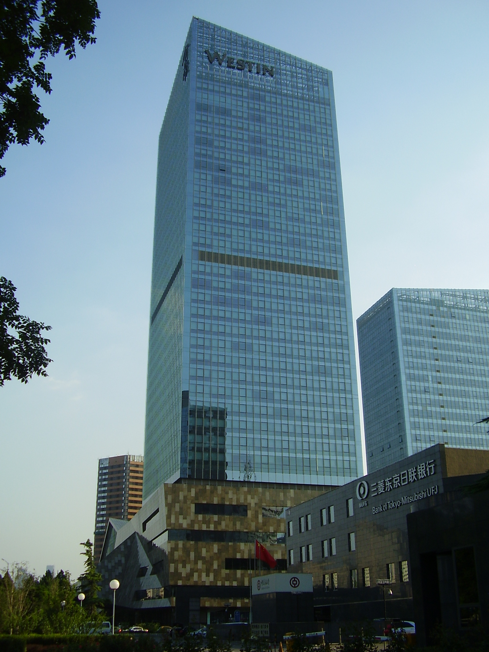 The Westin Beijing Chaoyang (S: 金茂北京威斯汀大饭店, T: 金茂北京威斯汀大飯店, P: Jīnmào Běijīng Wēisītīng Dàfàndiàn "Luxurious Beijing Westin Big Hotel") - 7 North Dongsanhuan Road (Dongsanhuan Beilu), Chaoyang District, Beijing, 100027 China